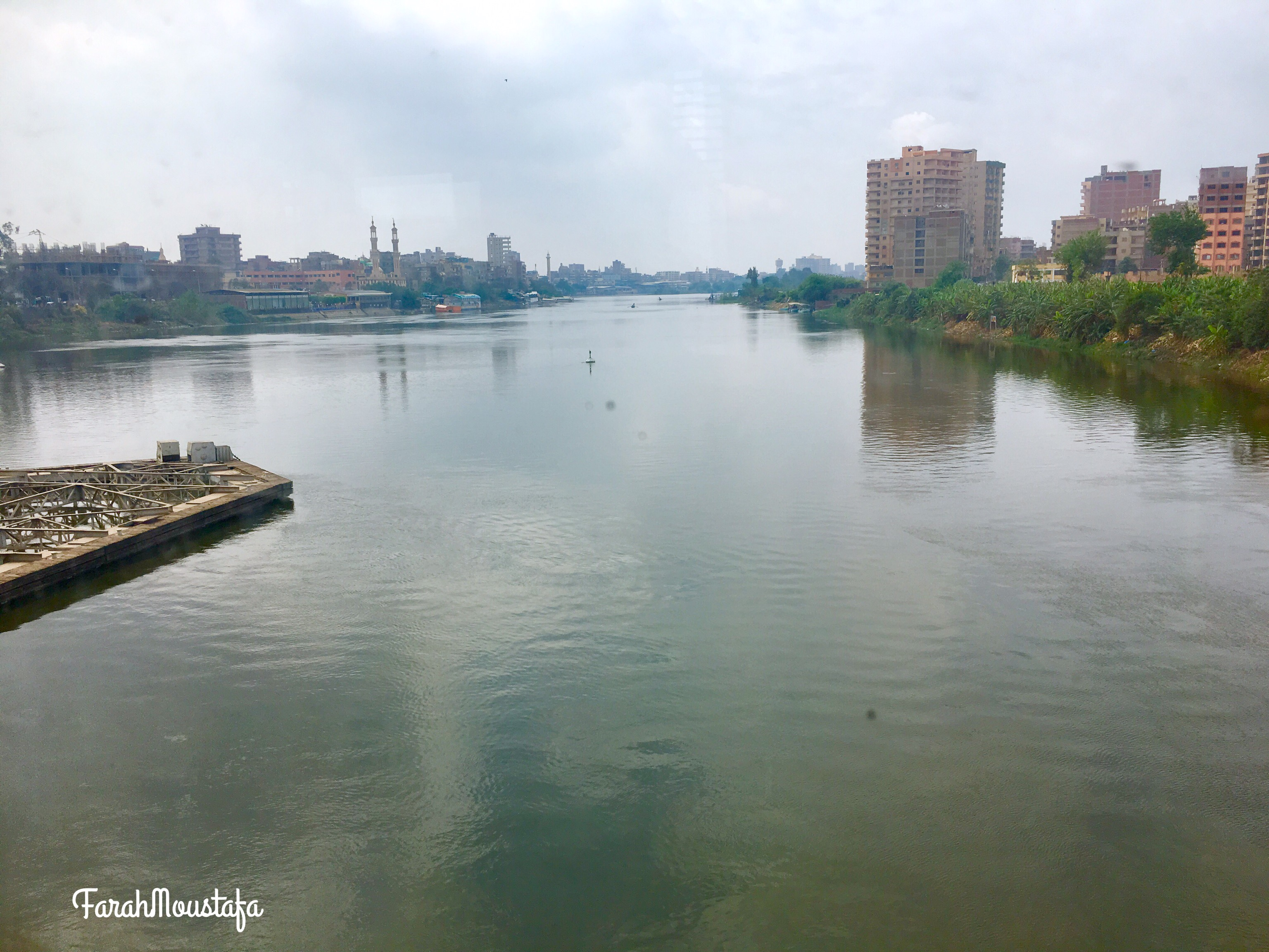 I captured this photo when i was on the train on my way to Alexandria : this is only a small part of the Nile river passing through Banha.